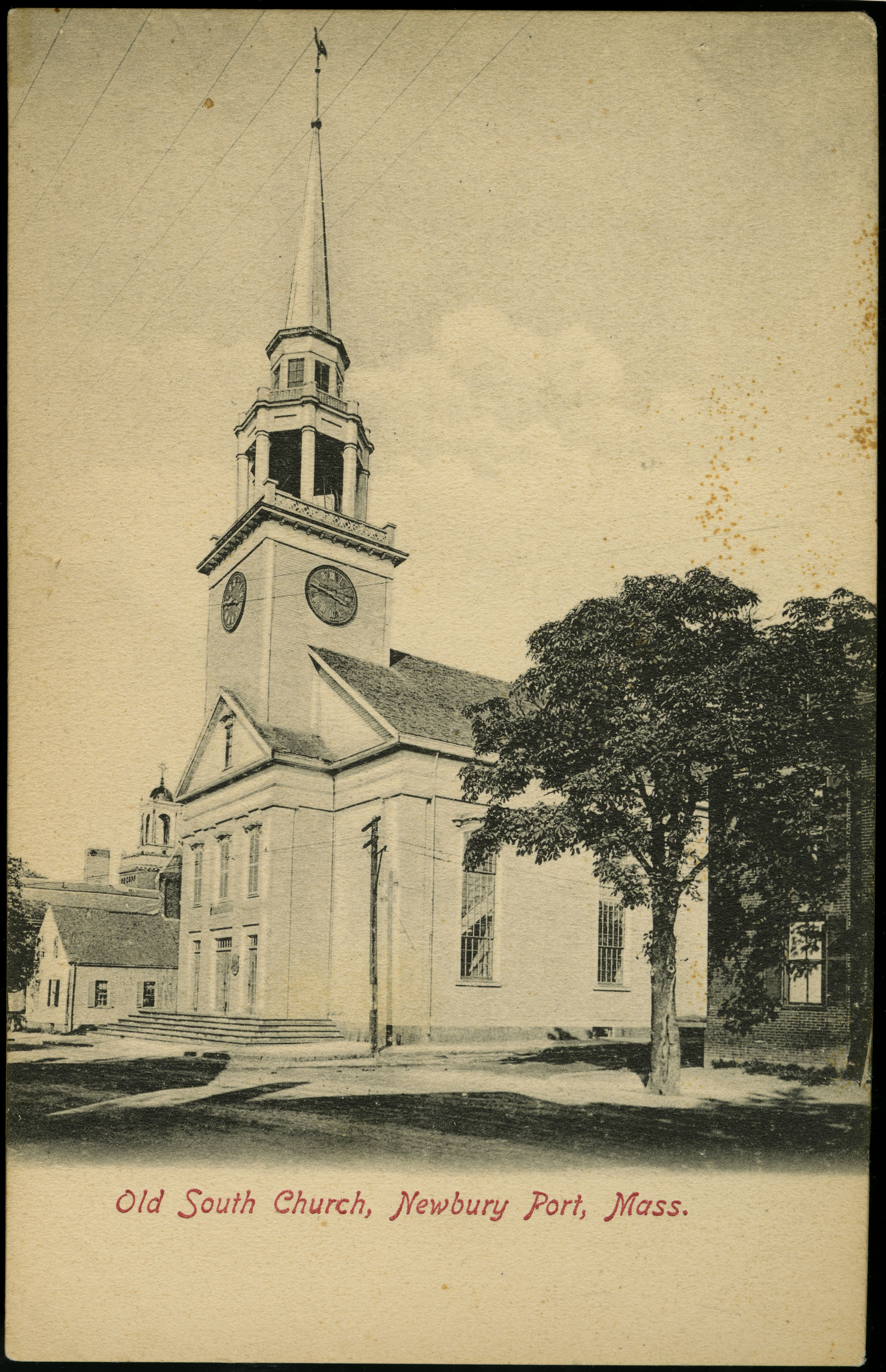 Old South (Presbyterian) Church in Newbury Port, Massachusetts from a pre-1923 postcard From RG 428, Postcard Collection, Presbyterian Historical Society, Philadelphia, Pennsylvania.